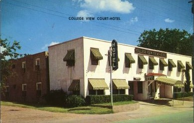 College View Court-Hotel, 1123-27 Elm Ave., Waco, Tex. Waco's Finest for Negroes. Located in most exclusive district – 35 modern rooms, tile baths, - air conditioned.